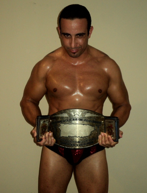 Gilbert posing with the WWC Puerto Rico Heavyweight Championship in a meet & greet following a World Wrestling Council live show in March 2011.